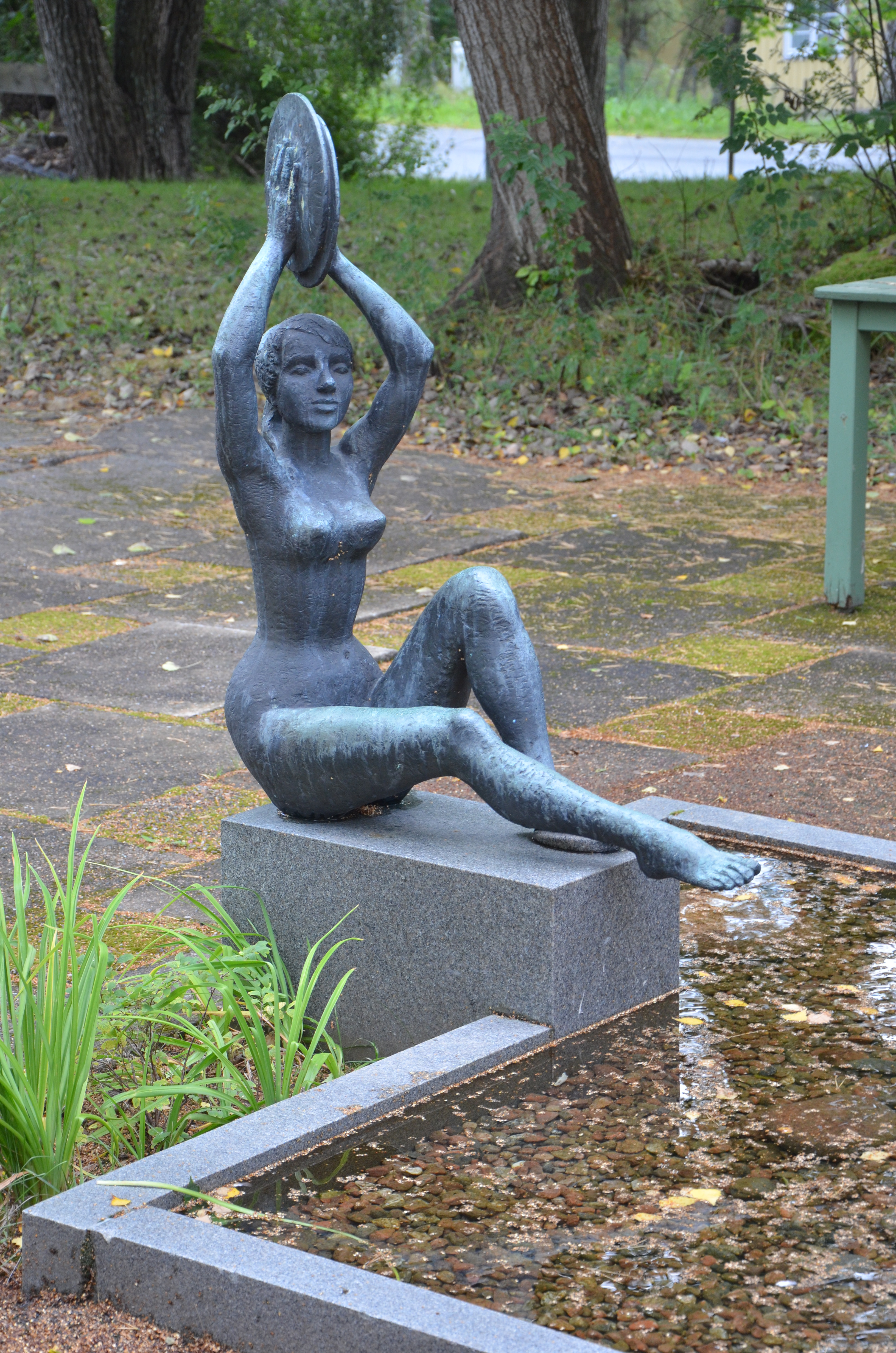 Clarence Blums Cymbalen klingar, brons, 1967, utanför Allégårdens servicehus, Näsby allé i Näsby Park